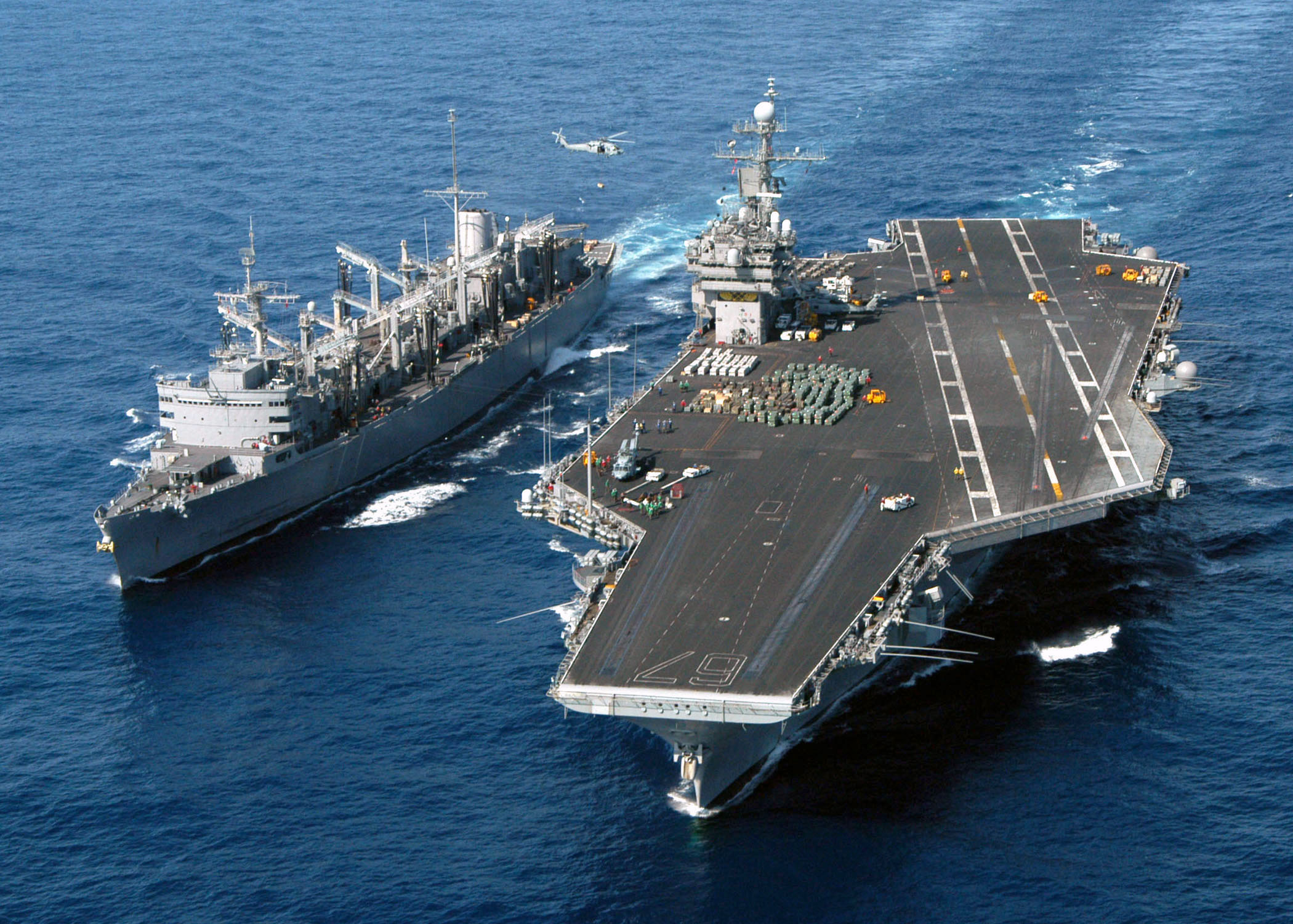 Atlantic Ocean (Apr. 23, 2004) - USS John F. Kennedy (CV-67) receives ordnance from the fast combat support ship USS Seattle (AOE-3) during an ammunition onload in the Atlantic Ocean. The conventional powered aircraft carrier conducted an underway replenishment with Seattle and a vertical replenishment with USS Enterprise (CVN-65) in final preparations for a scheduled six-month deployment to the Mediterranean Sea.